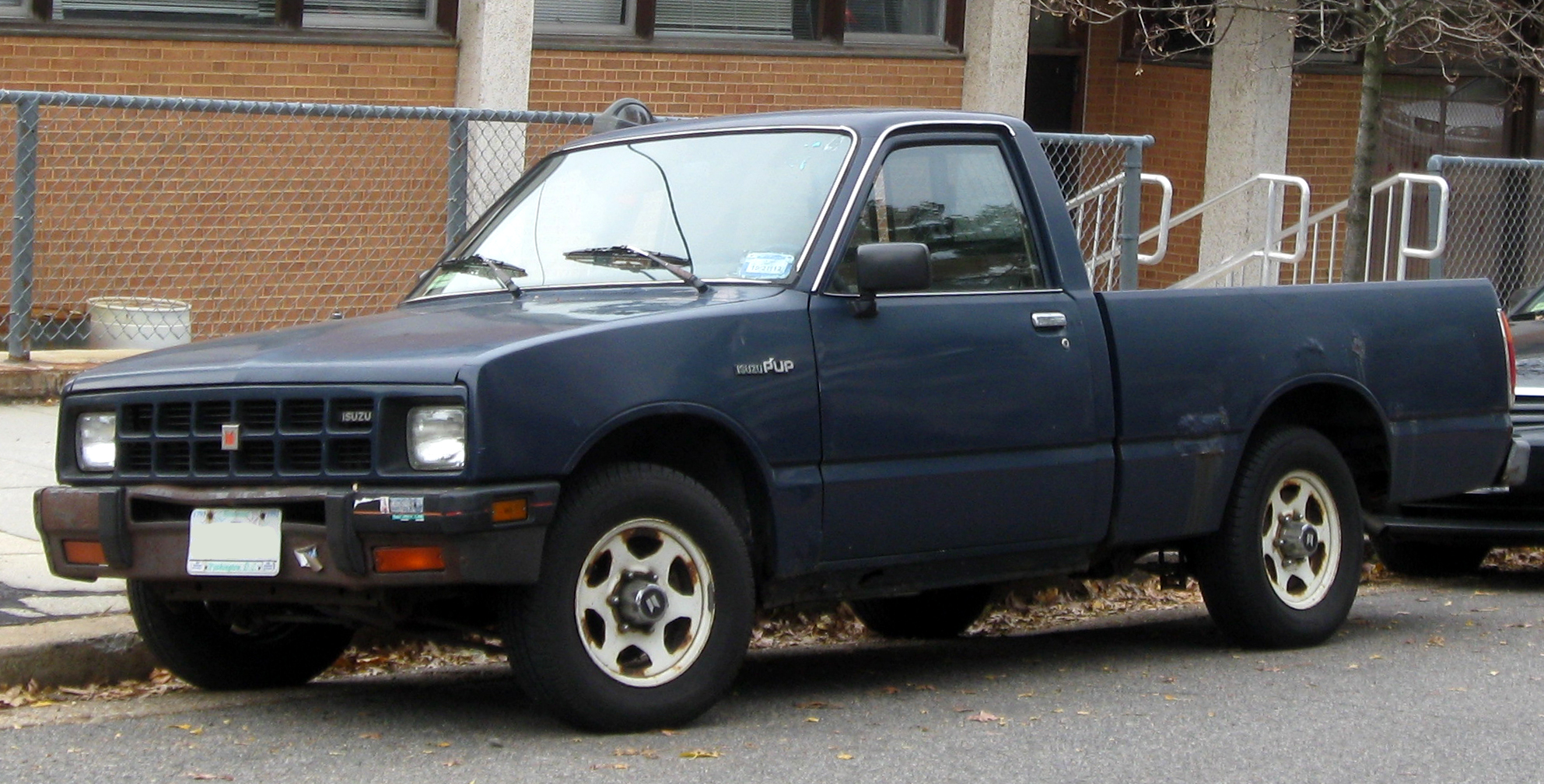 Isuzu P'up photographed in Washington, D.C., USA.